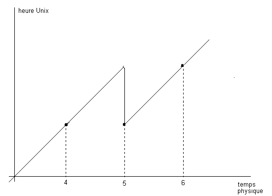 clock brutally adjusted when a leap second is inserted